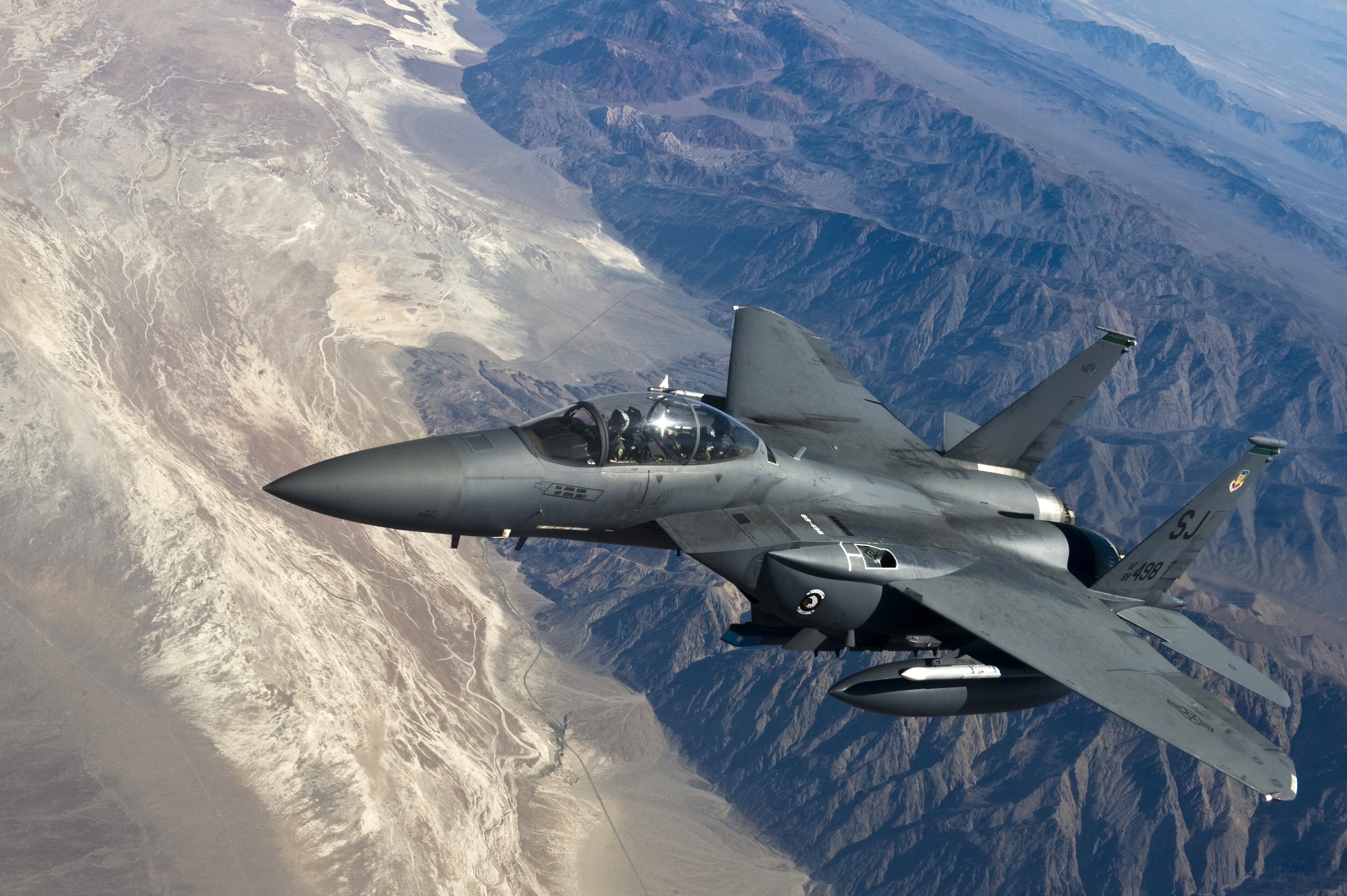 A U.S. Air Force F-15 Strike Eagle with the 335th Fighter Squadron, Seymour Johnson Air Force Base, N.C., pulls alongside a KC-135 Stratotanker after refueling during during Green Flag-West 11-08, June 22. Conducted by the 549th Combat Training Squadron at Nellis Air Force Base, Nev., and the 12th Combat Training Squadron at Fort Irwin, Calif., Green Flag West provides a realistic close-air support training environment for airmen and soldiers preparing to deploy in support of combat operations.